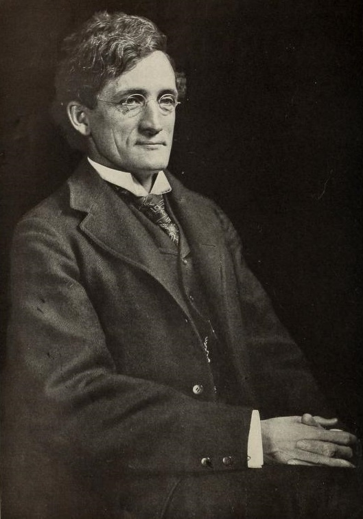 Portrait of Liberty Hyde Bailey